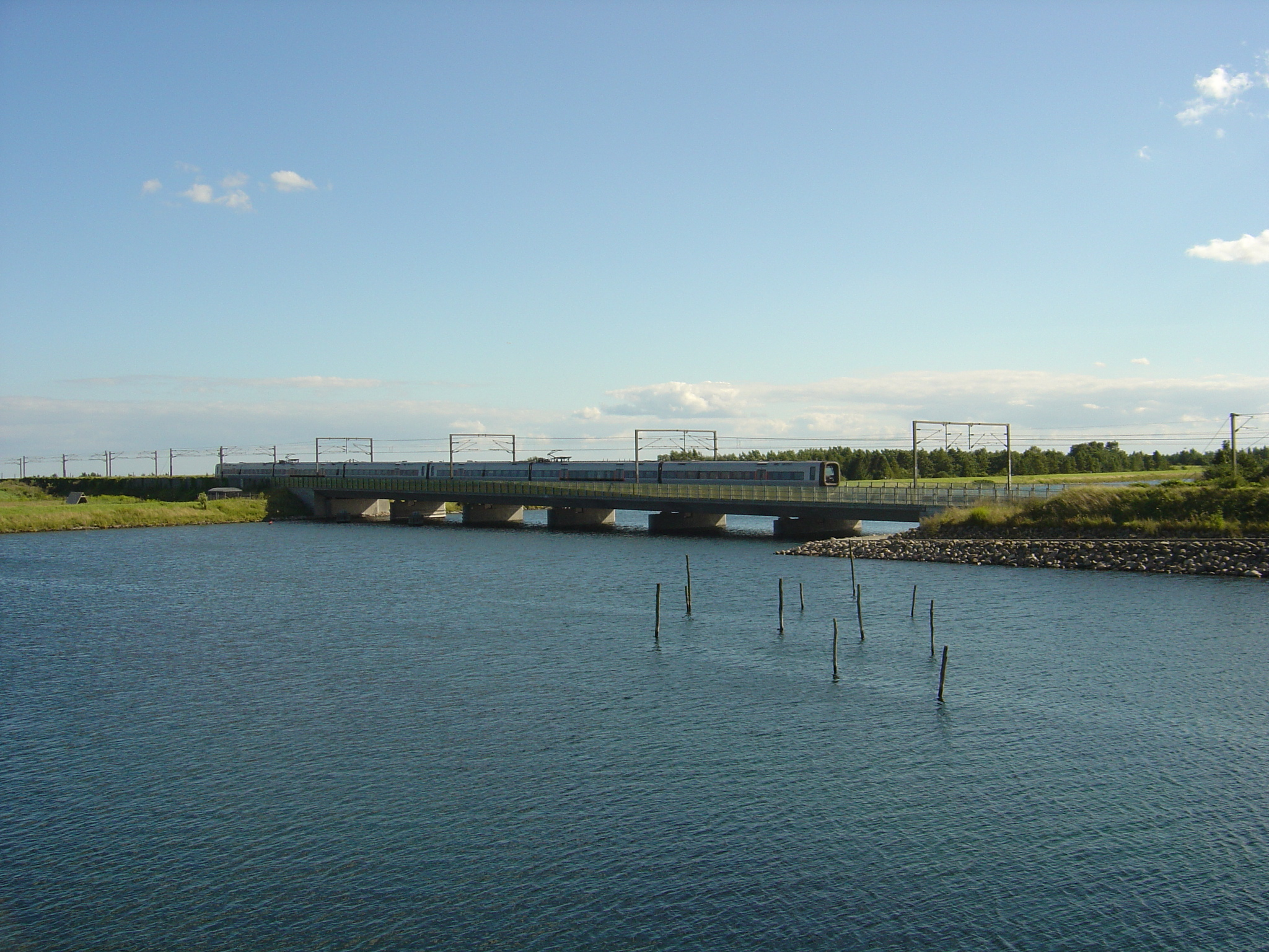 Sjællandsbroen (train bridge) - A train bridge in Copenhagen south of Sjællandsbroen (bridge), that connects Zealand and Amager. Seen from the north side on Sjællandsbroen.